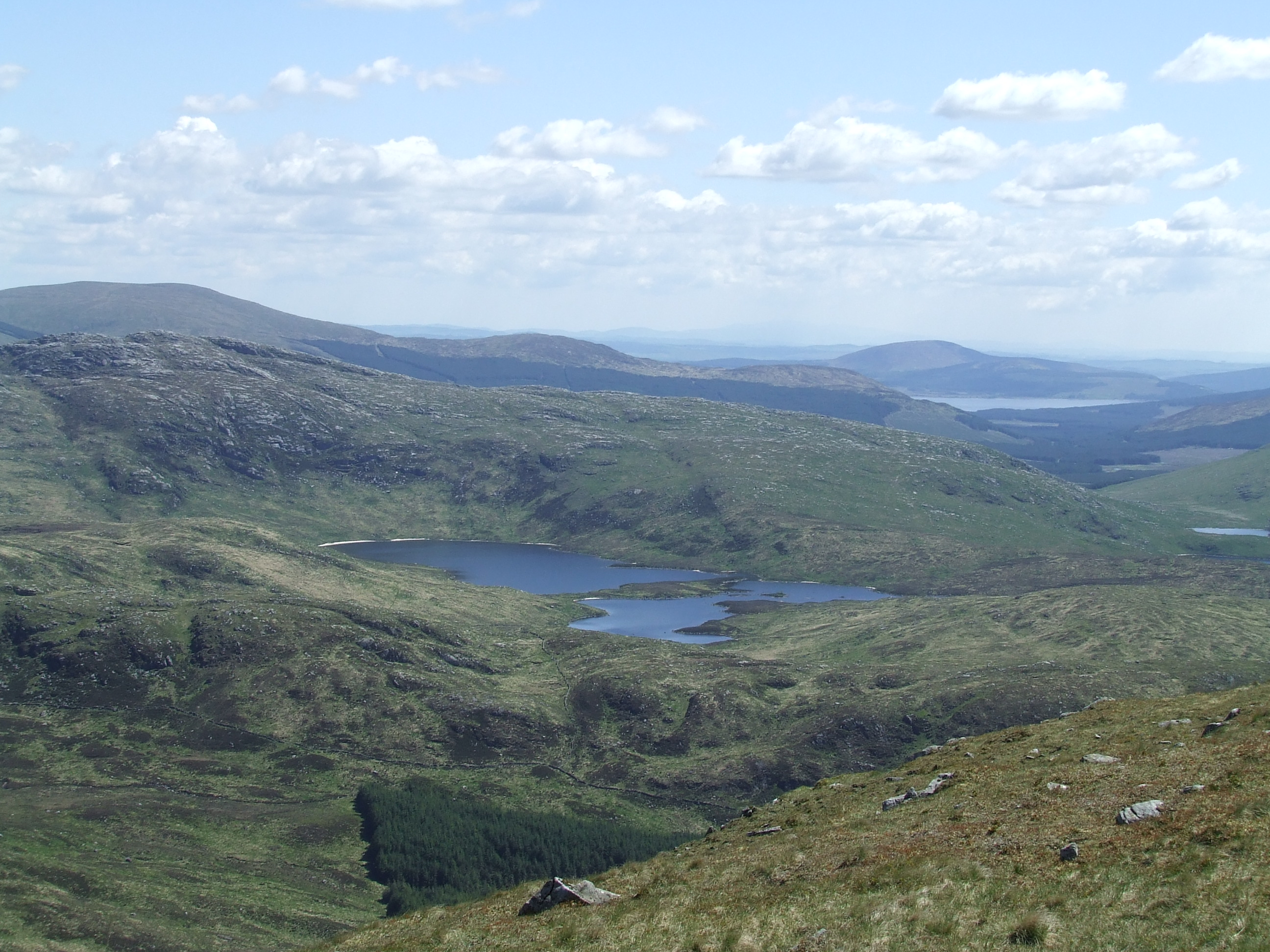 Loch Neldricken from the summit of Benyellary. Craignaw is the hill just behind.